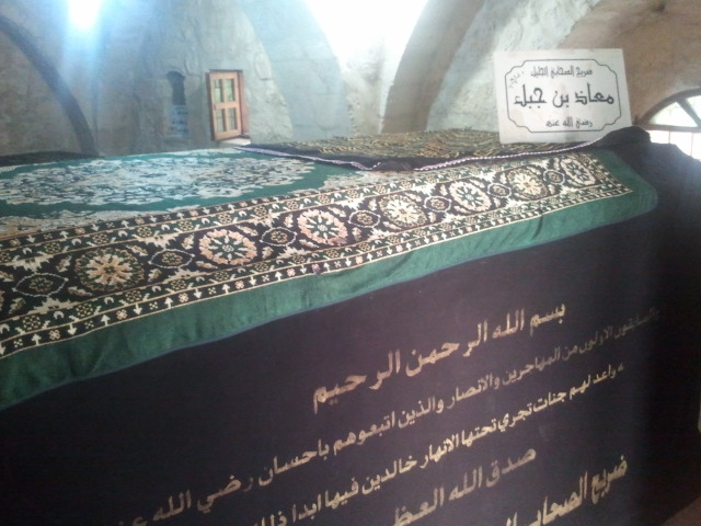 Muath Bin Jabal Grave